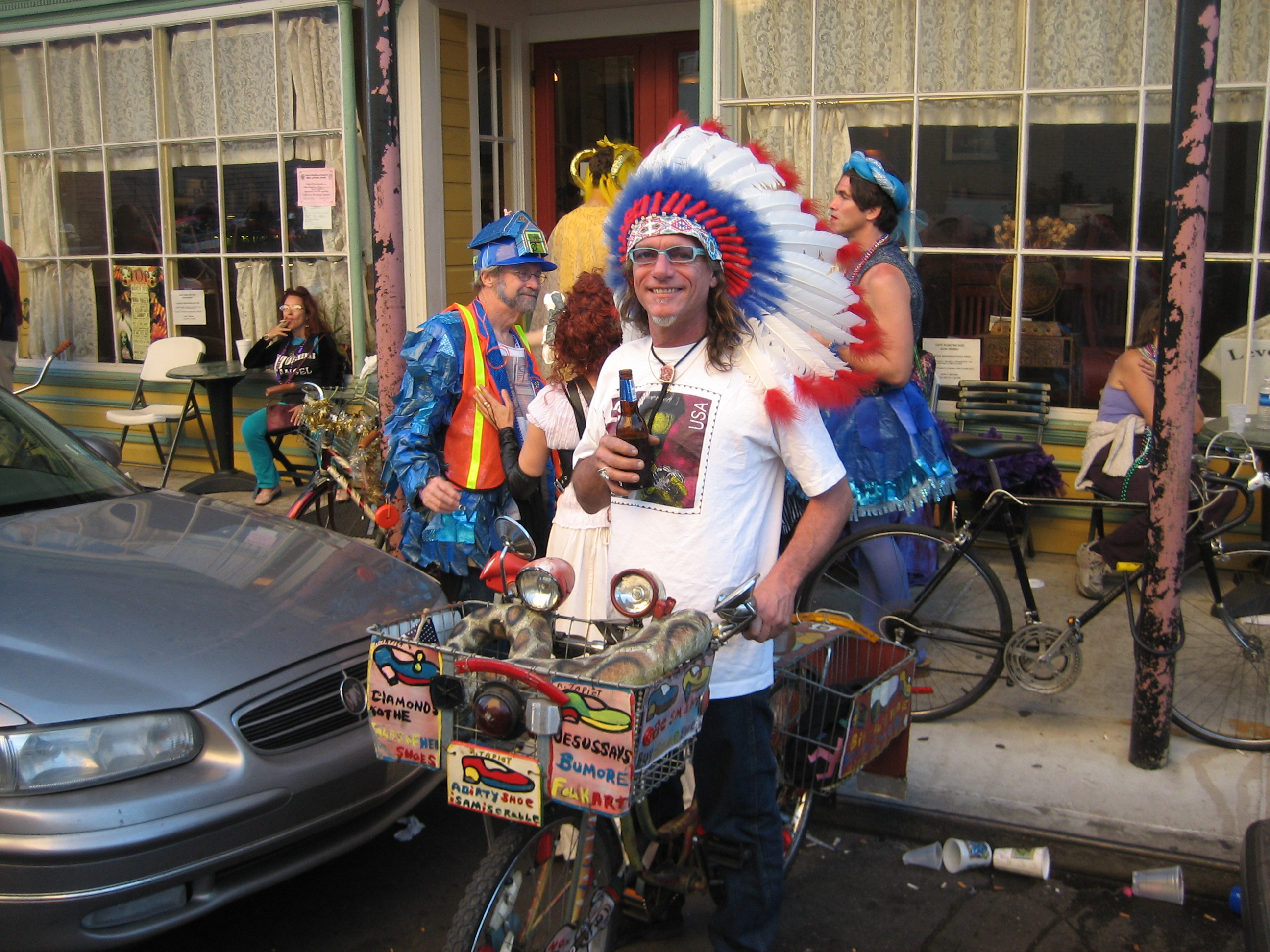 New Orleans, Mardi Gras Day, 2006. Costumed revelers on Frenchmen Street.